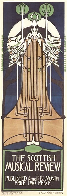 The Scottish Musical Review